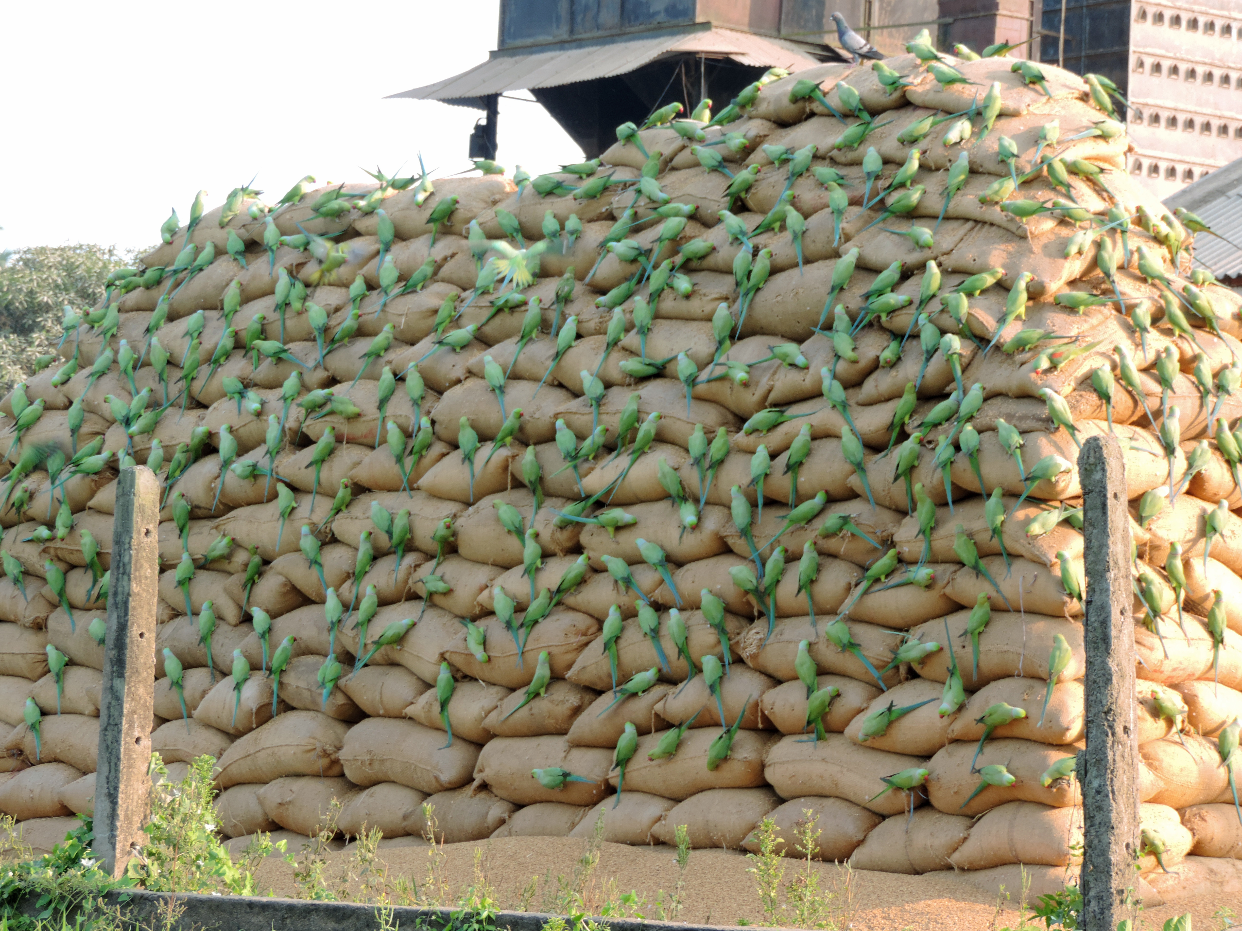 A group of Rose-ringed Parakeet Psittacula krameri (and one Alexandrine Parakeet Psittacula eupatria) feeding on stored grain.